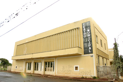 Teatro